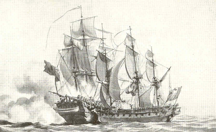 Subject: Naval battles, Sailing ships, Corvettes (Warships), Ambuscade (Frigate), Bayonnaise (Corvette), Bayonnaise (Ship) Tag: Vessels